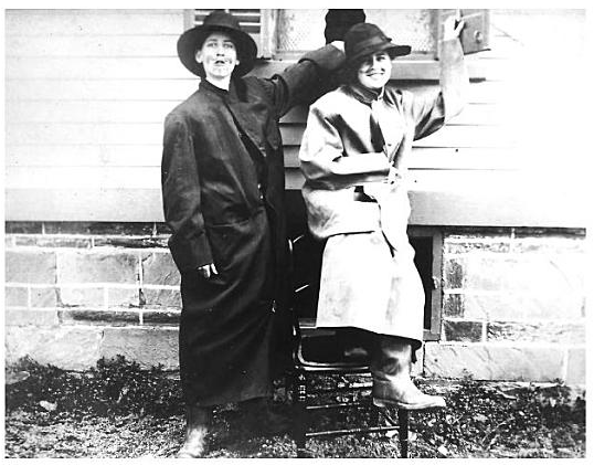 Hattie Covey was tarred and feathered in Jayville, NY in 1892